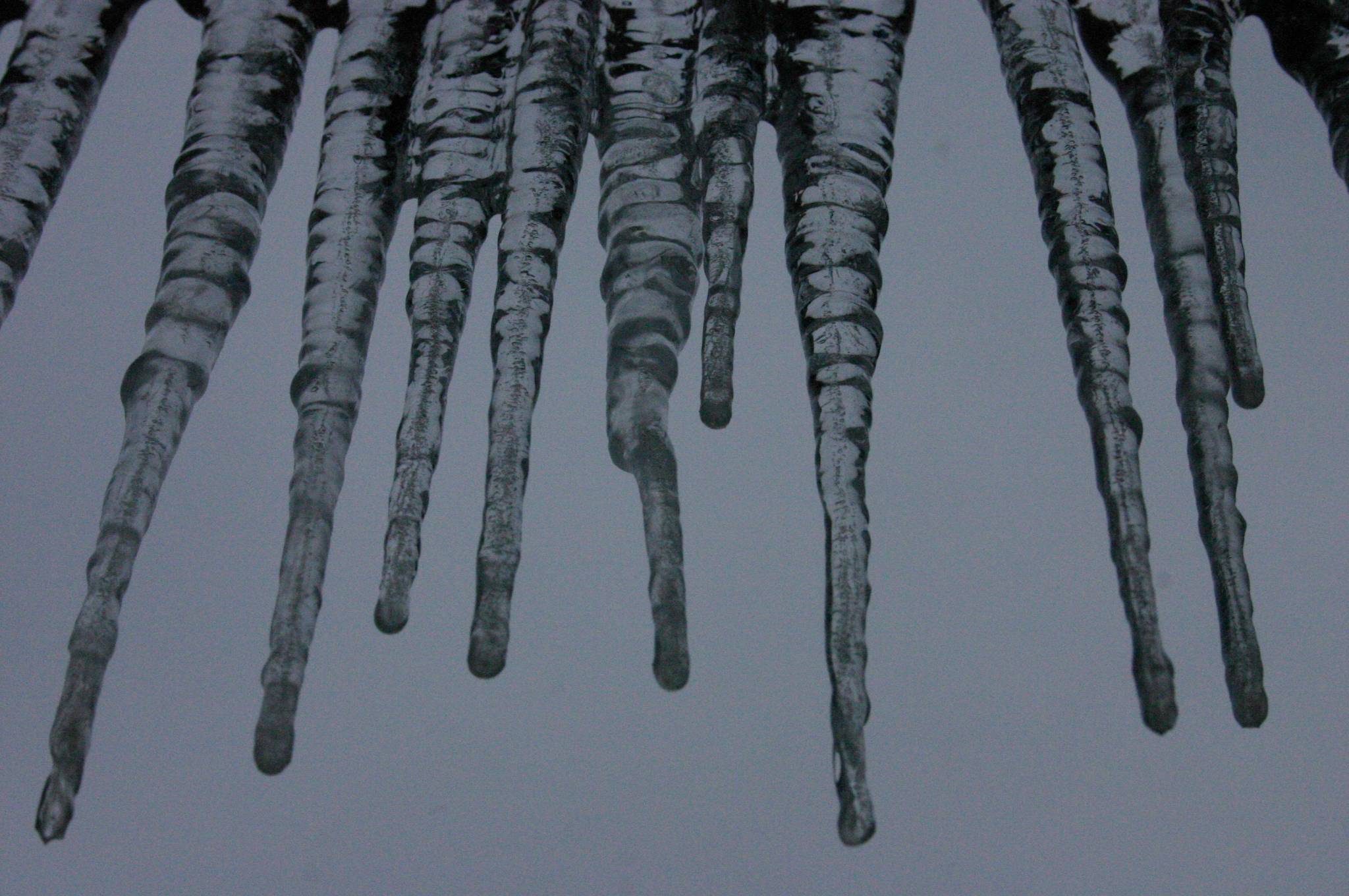 Structural details of melting icicles against gray sky.